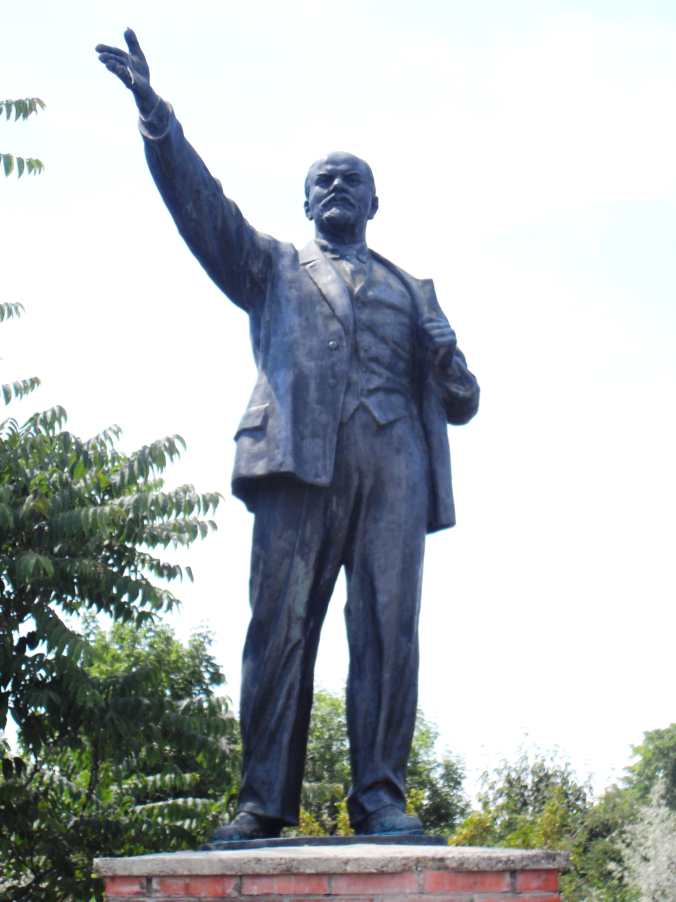 Lenin statue from outside the "Csepel ironworks" factory (Csepel was in the late nineteenth century an intensely industrial area, with manufacturies and soviet heavy machinery plants). The metal statue is about 2 meter 50 cm high and was originally located in Csepel Island, the working class district and industrial area located south of Budapest, in front of the factory complex called "Csepel Muvek" (Csepel Works), which was the flagship of the Hungarian heavy industry. The statue of Lenin with his outstretched right hand was installed in Budapest in 1958 at Khrushchev's suggestion but was removed in 1989. It was not untill 1996 that the statue was again to see in Budapest, after the factory donated it to the Memento Park.